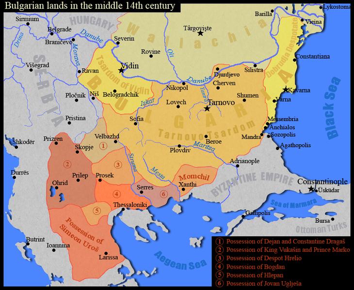 Removed since Kandi's background, since data in : Gustav Weigand, Karl Sanfeld, Jernej Kopitar and Thede Kahl & Michael Metzeltin, "Rumänien: Raum und Bevölkerung, Geschichte und Geschichtsbilder, Kultur, Gesellschaft und Politik heute, Wirtschaft, Recht und Verfassung, historische Regionen", Lit Verlag, Auflage: Nachdruck April 2008, ISBN 978-3825800697, about the interactions between Bulgarian states and Vlach/Wallachian population int the SE Europe (in the slavic historiography the romance speaker's presence are allways ignored ou minimised ; in the romanian historiography the slavic influence are minimised), with some little rectifications : some places & names since genovese sources, in 1371 Dzurdzevo (today Giurgiu) to Tarnovo and Drastar (today Silistra) to Wallachia (in Codex Parisinus latinus in Ph. Lauer, Catalogue des manuscrits latins, pp.95-6, french Bibliothèque Nationale Lat. 1623, IX-X, Paris, 1940); Wallachia & Dobrudza as heir states of the Second bulgarian tzarate, with their areas according to sources (Wallachia is a heir state of the Second Bulgarian Empire. because its territory was bulgarian before 1328, and its official & religious language was slavonic since the bulgarian period to... 1711; before the XIV-th c. bulgarians & vlachs lived melted on the both sides of the Danube, between Carpathians & Great Balkan ranges... the medieval states were not ethnic nations as the actual countries) ; some places & names since genovese sources.